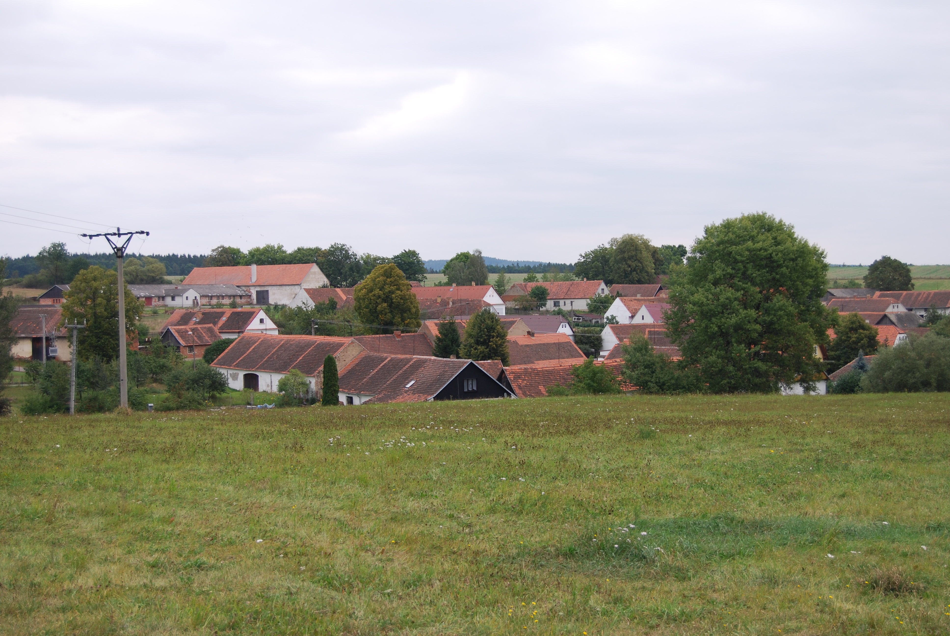 Jehnědno village, part of Albrechtice nad Vltavou village in Pisek District, Czech Republic.